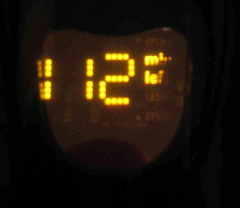 Showing a Light Emitting Polymer display on a Philishave 8894 shaver. The "mins left" portion of the display can be seen to have partially failed.